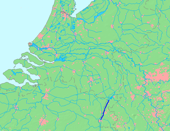 Location of a waterway (river/canal) in the Netherlends